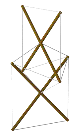 An illustration showing Kenneth Snelson's X-Module design of 1948 as embodied in a two-module column. It only shows the design as pertains to tensegrity, and does not duplicate the original art work.